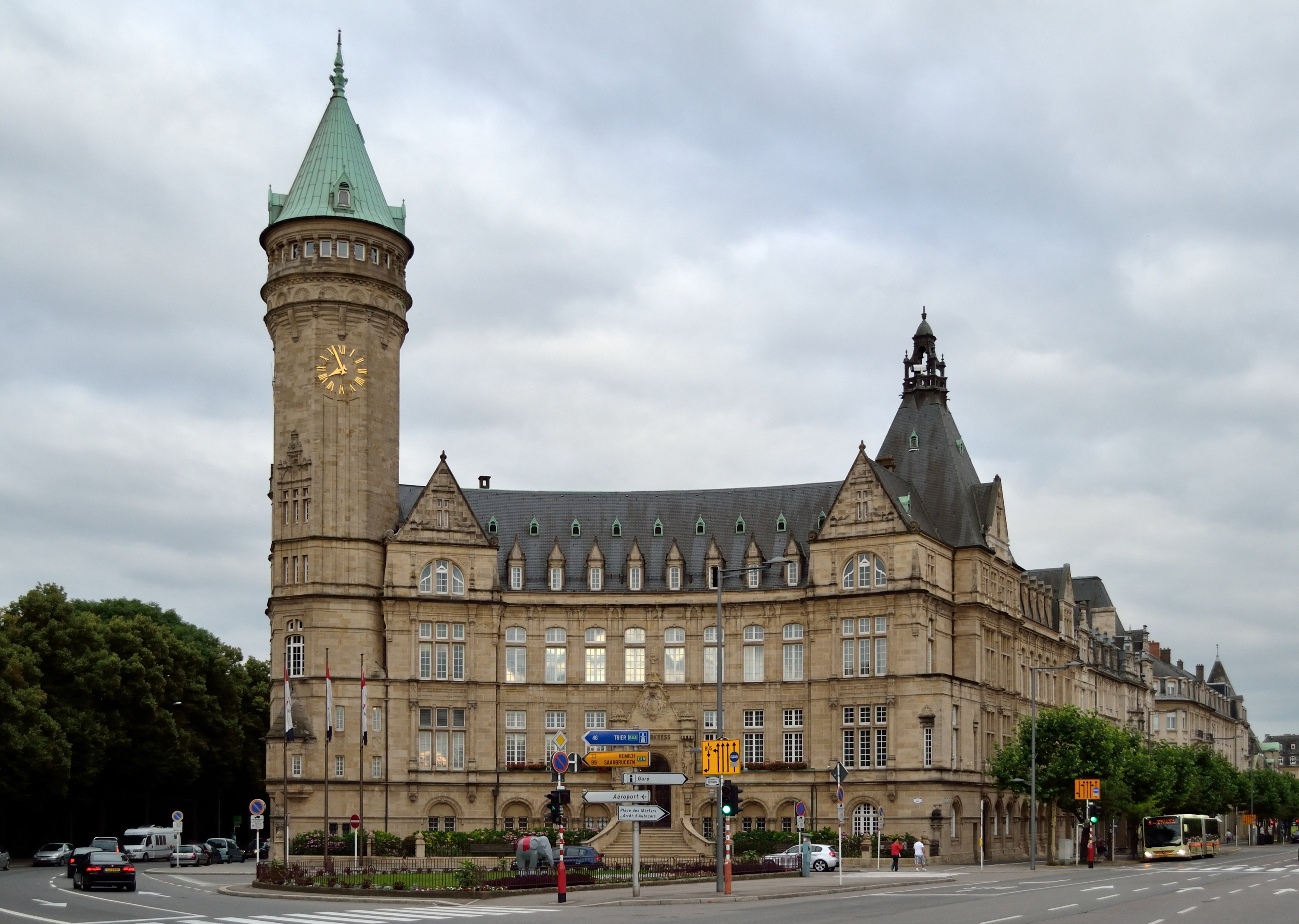 Headquarters of the Banque et caisse d'épargne de l'Etat at Place de Metz, Luxembourg